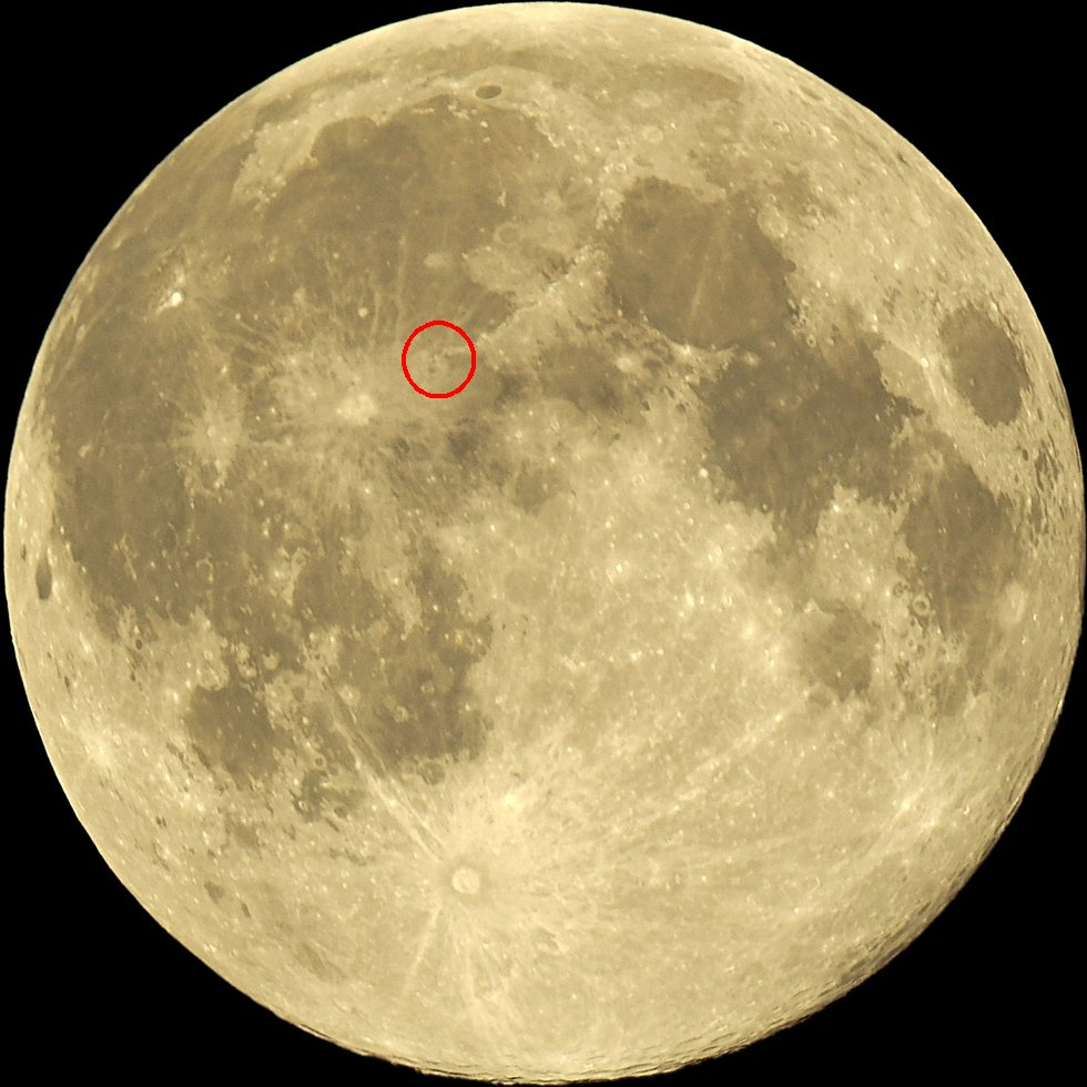 Location of crater Eratosthenes on the Moon